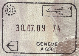 Swiss passport stamp from Geneva Airport.